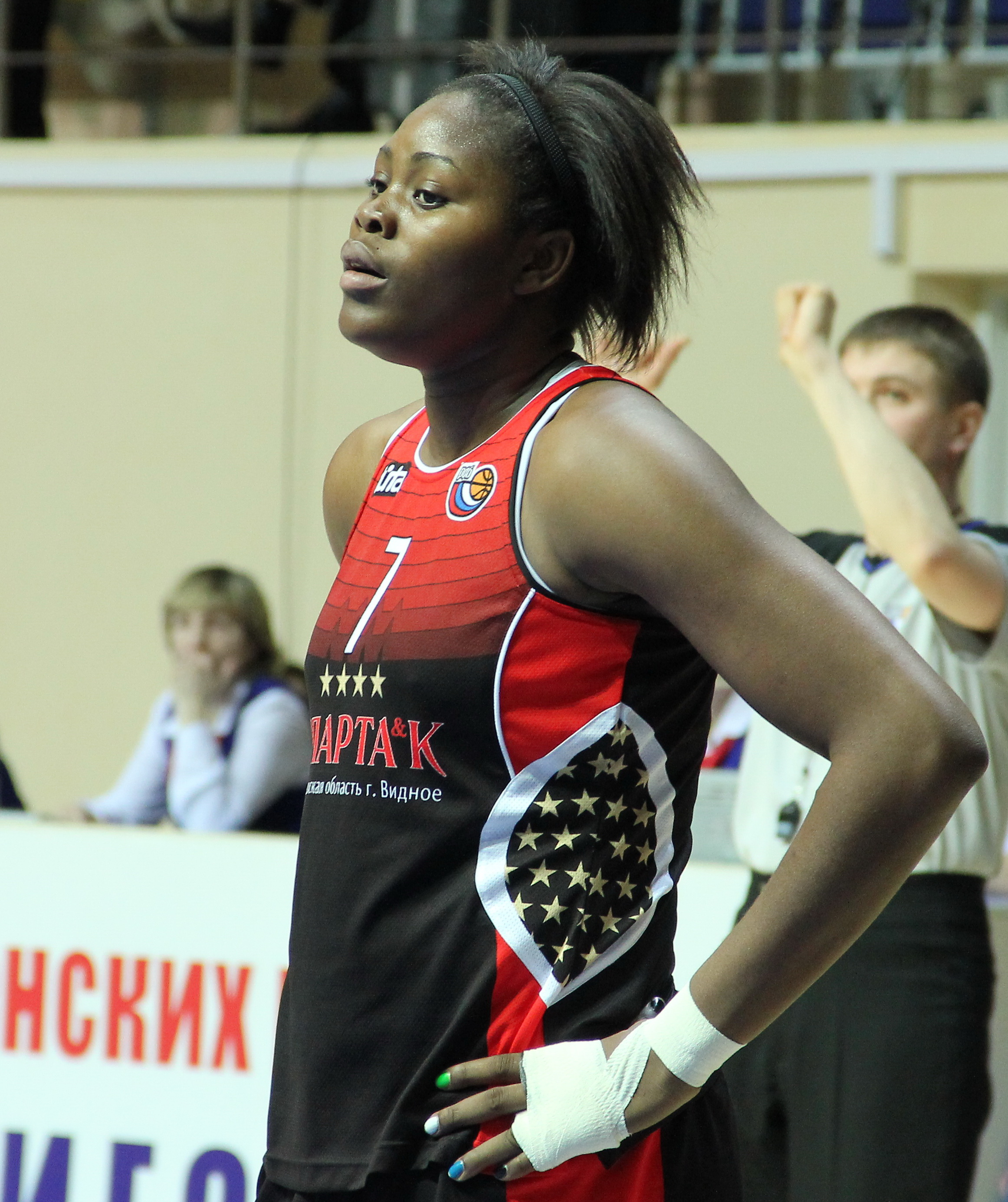 Russia, Vologda, Isabelle Yacoubou in game «Vologda-Chevakata» vs «WBC Spartak Moscow Region»